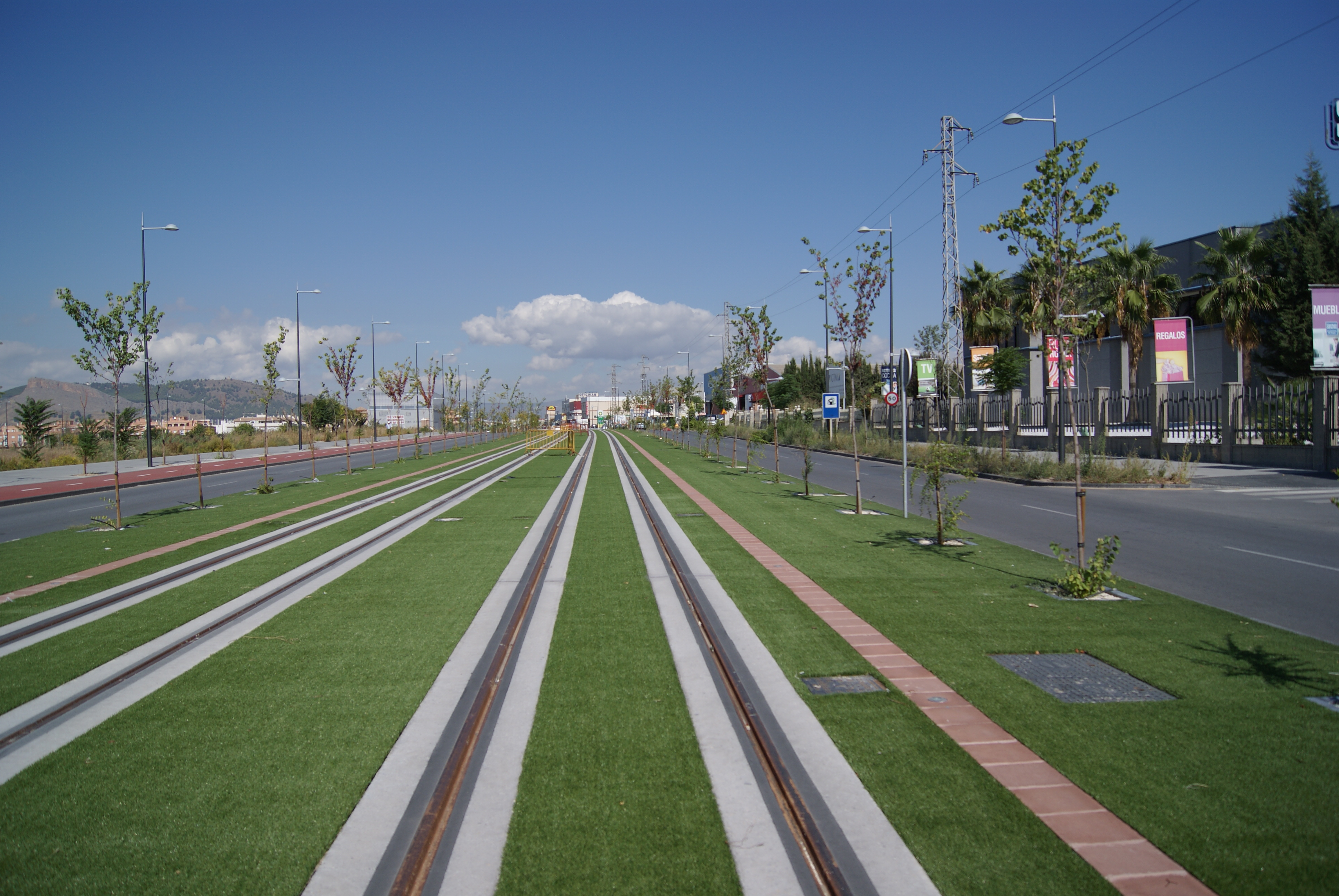 Metropolitano de Granada (Spain) light railway near Juncaril trading estate